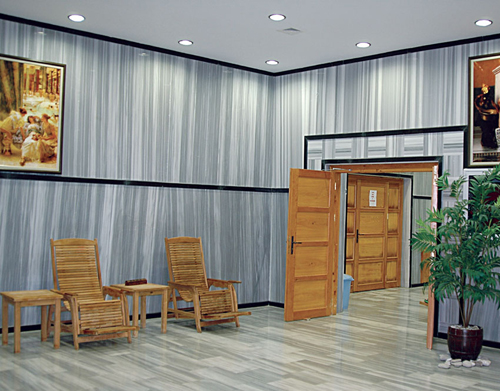 Marmara mermeri ev içi dizayn